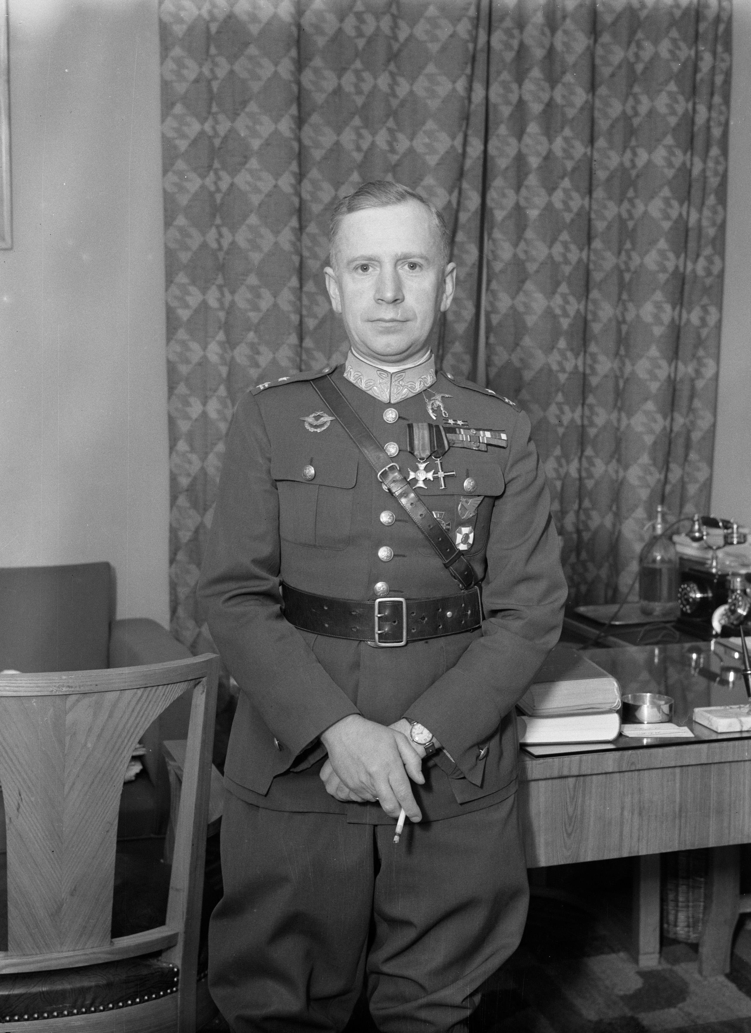 Warsaw. Portrait of Major Stanislaw Jakub Skarzynski (1899-1942) Annotation: Skarzynsky made a successful solo flight over the Atlantic in 1933 in a single-engine plane from Saint Louis in Senegal to Maceio in Brazil. After the German invasion of Poland he became Commanding Officer of the Polish Flying Schools of the British RAF. He also took an active part in air operations over Germany. In 1942 he was killed in an emergency landing on the North Sea. He found his last resting place on the Dutch Wadden island of Terschelling.